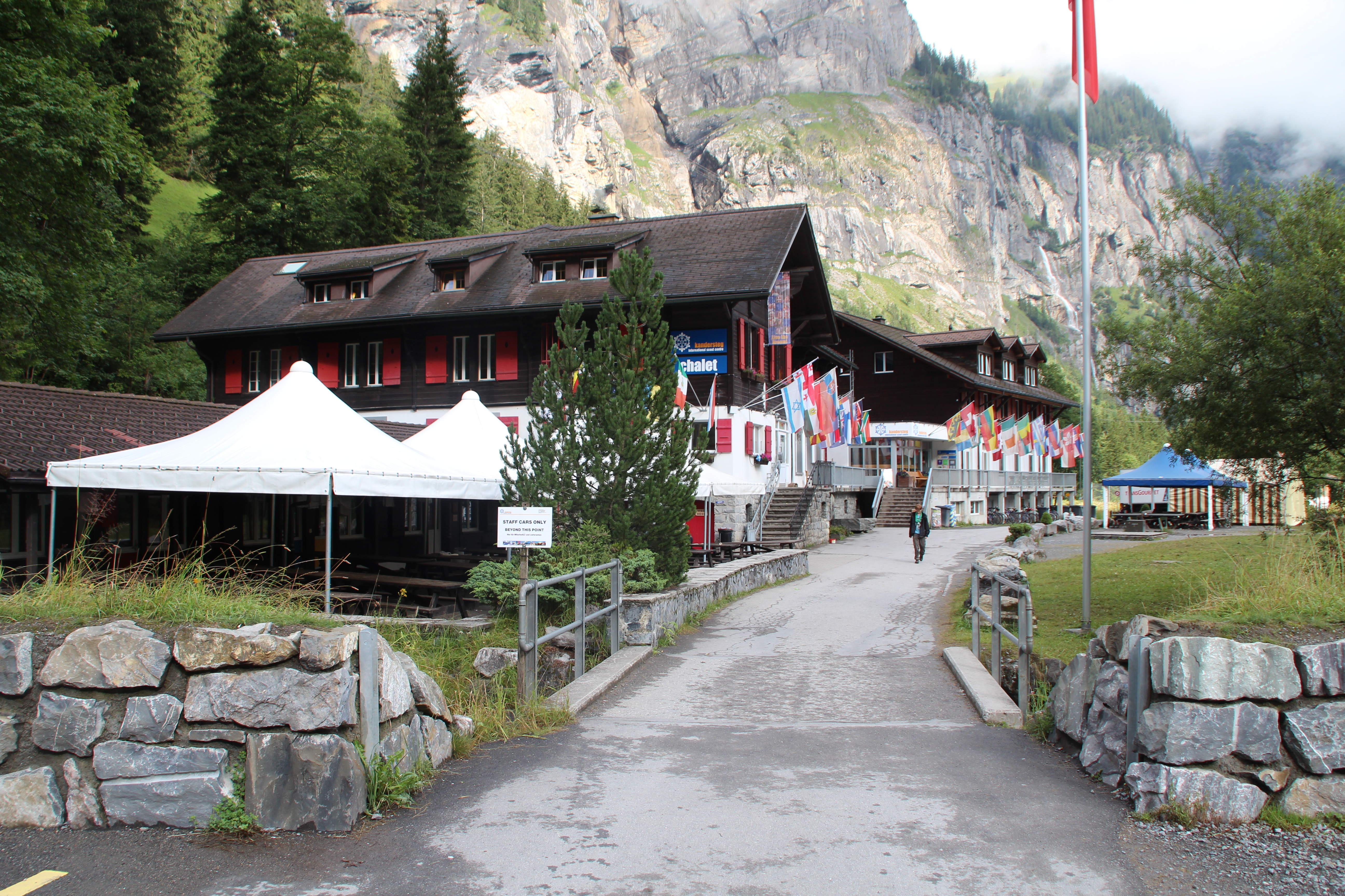 Kandersteg International Scout Centre